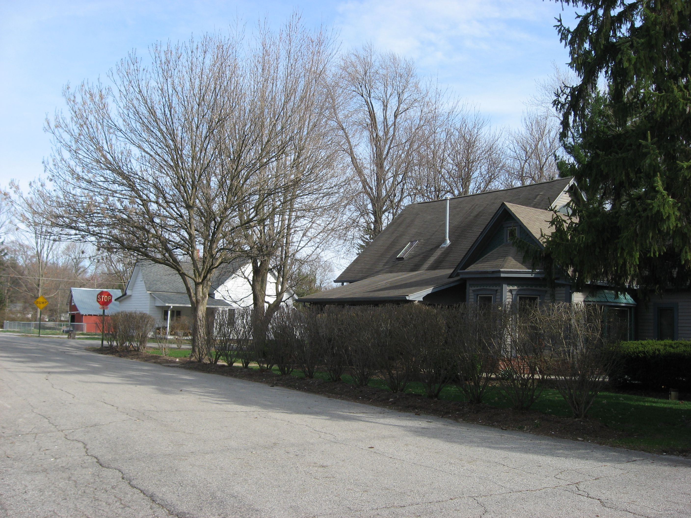 Houses on the southern side of 72nd Street between Dobson and Pollard Streets in the New Augusta neighborhood of Indianapolis, Indiana, United States. This block is part of the New Augusta Historic District, a historic district that is listed on the National Register of Historic Places.